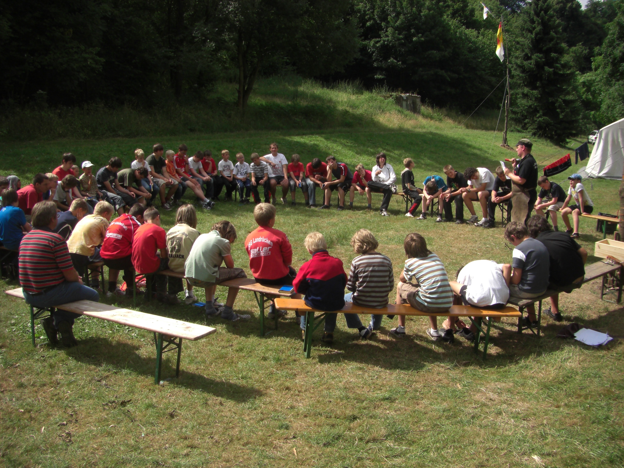 Summer camp of Schoenstatt Men´s Youth Fulda